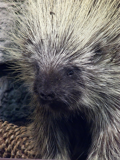 Porcupine photographed by Mary Harrsch.